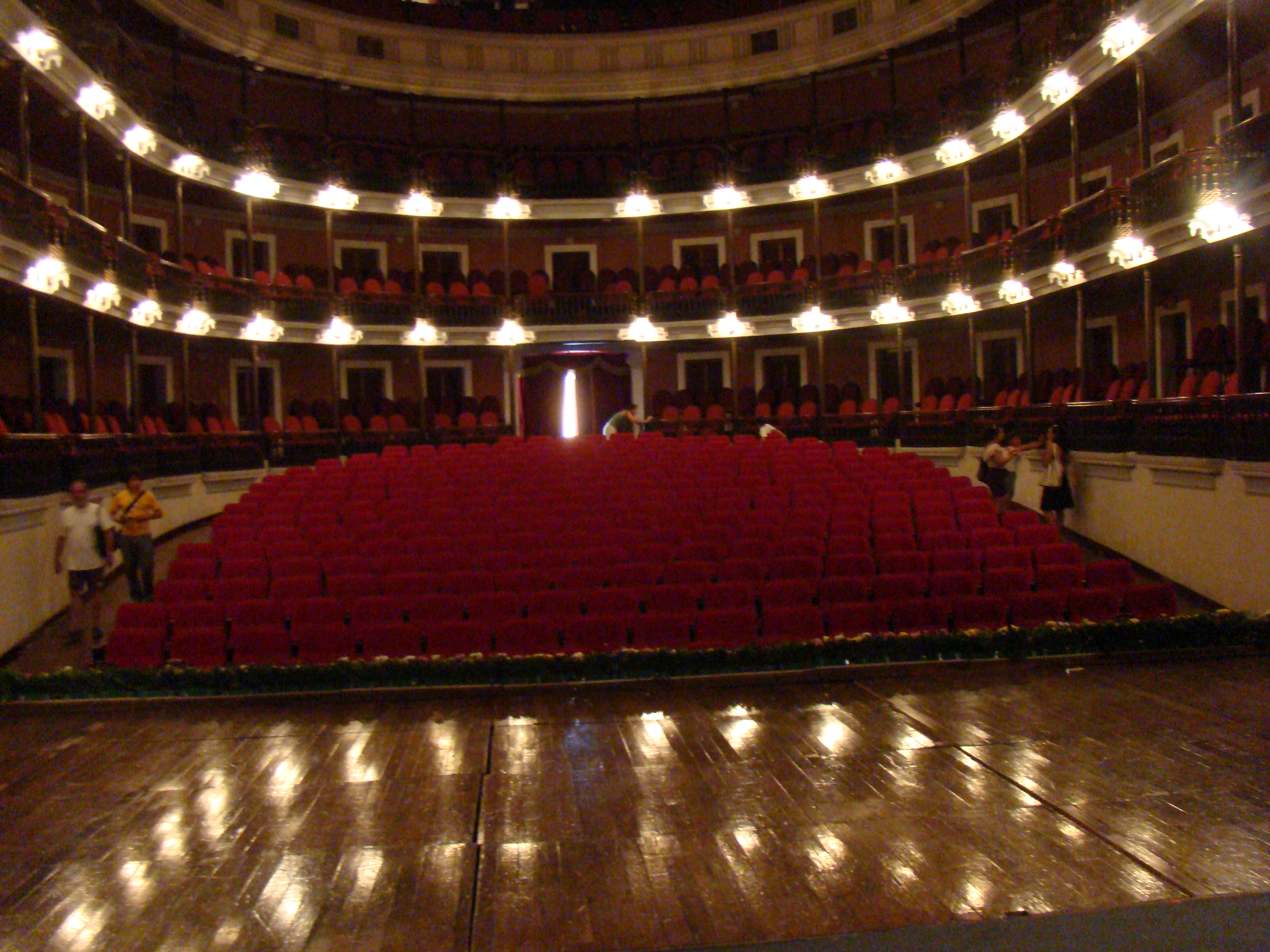 Proscenium, stall and aprons of the Ángela Peralta Theater at Mazatlán, Sinaloa, México.